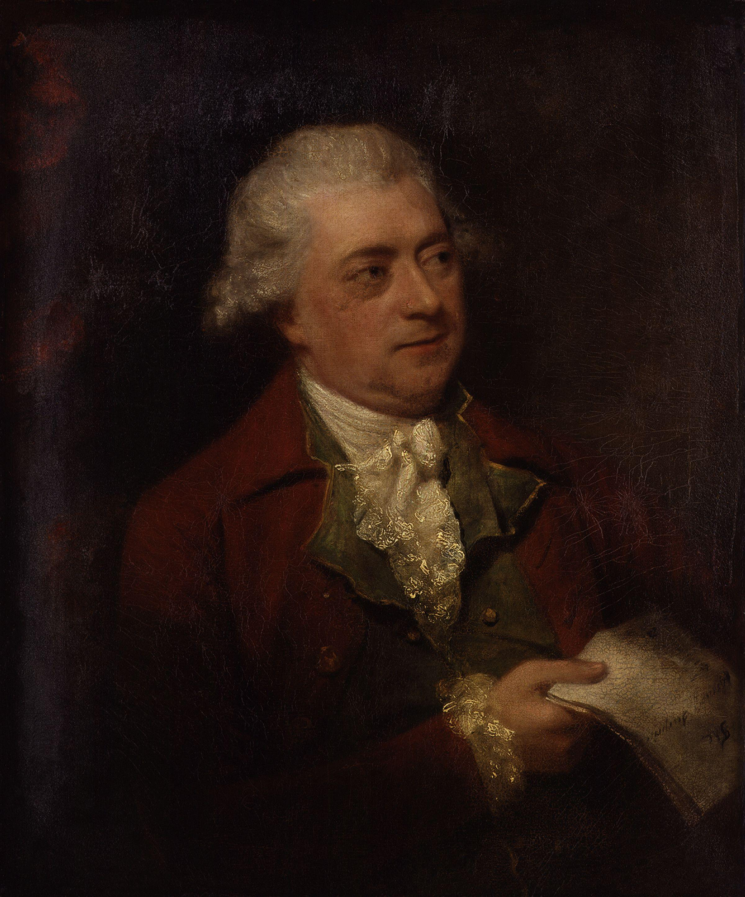 John O'Keeffe, by Thomas or William Lawranson. All images in this batch have a known author, but have manually examined for strong evidence that the author was dead before 1939, such as approximate death dates, birth dates, floruit dates, and publication dates.